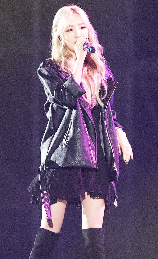 Taeyeon at KBS Gayo Daechukje December 30, 2015.